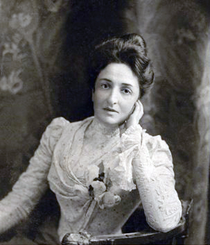 Mariam Jambakur-Orbeliani, a prominent educator in the country of Georgia (E. Europe)